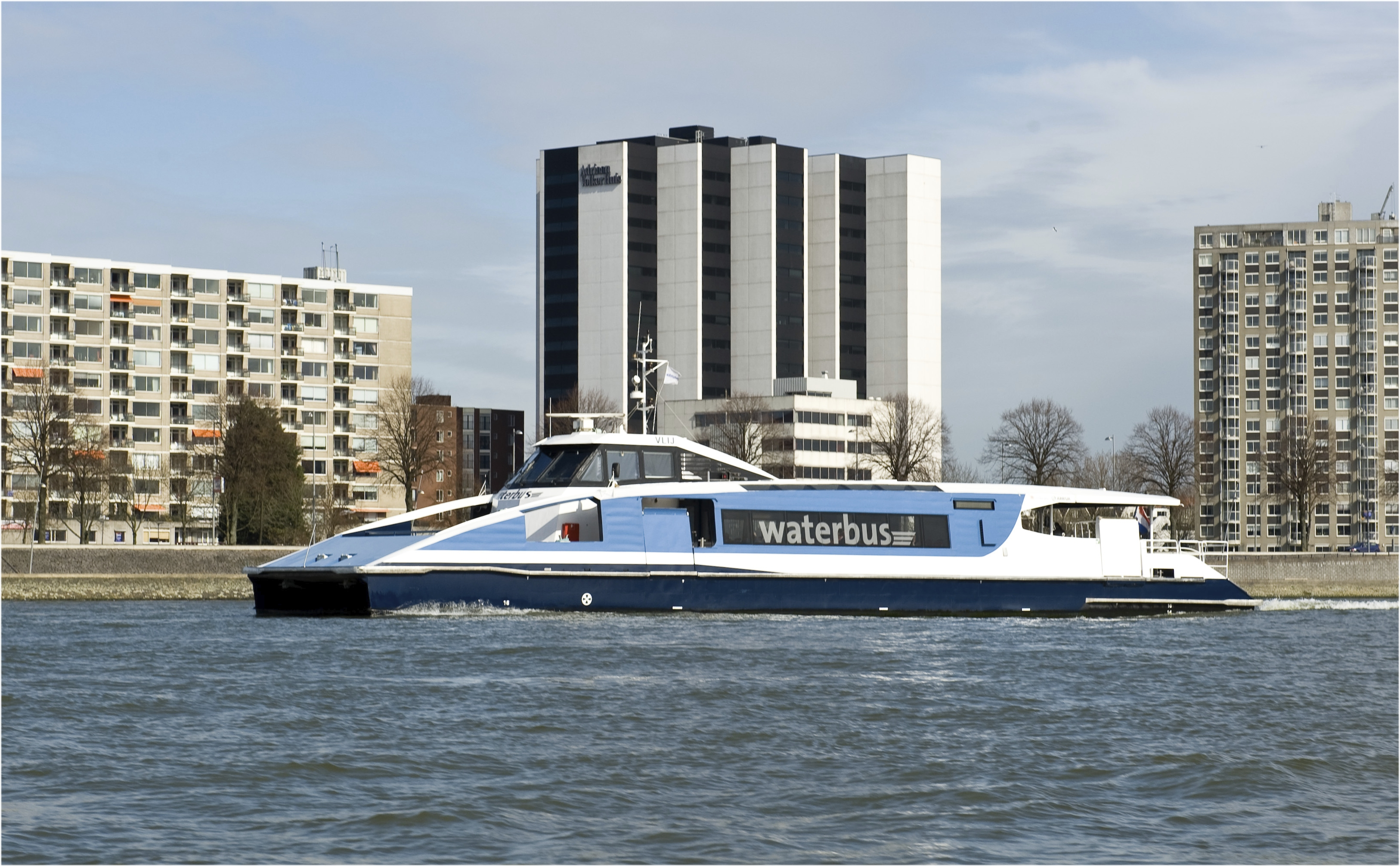 Waterbus